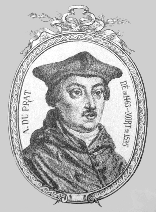 Antoine Duprat (1463-1535), chancellor of France and Cardinal.